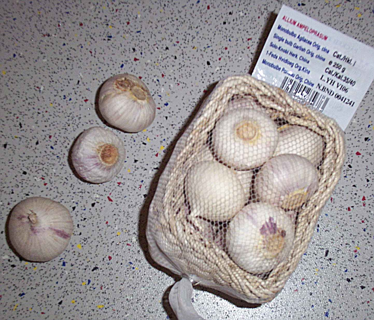 Single-bulb / solo garlic, a variety of Allium sativum. (Falsely labeled as Allium ampeloprasum), as sold in a German supermarket. Taken by ProhibitOnions, 2006.